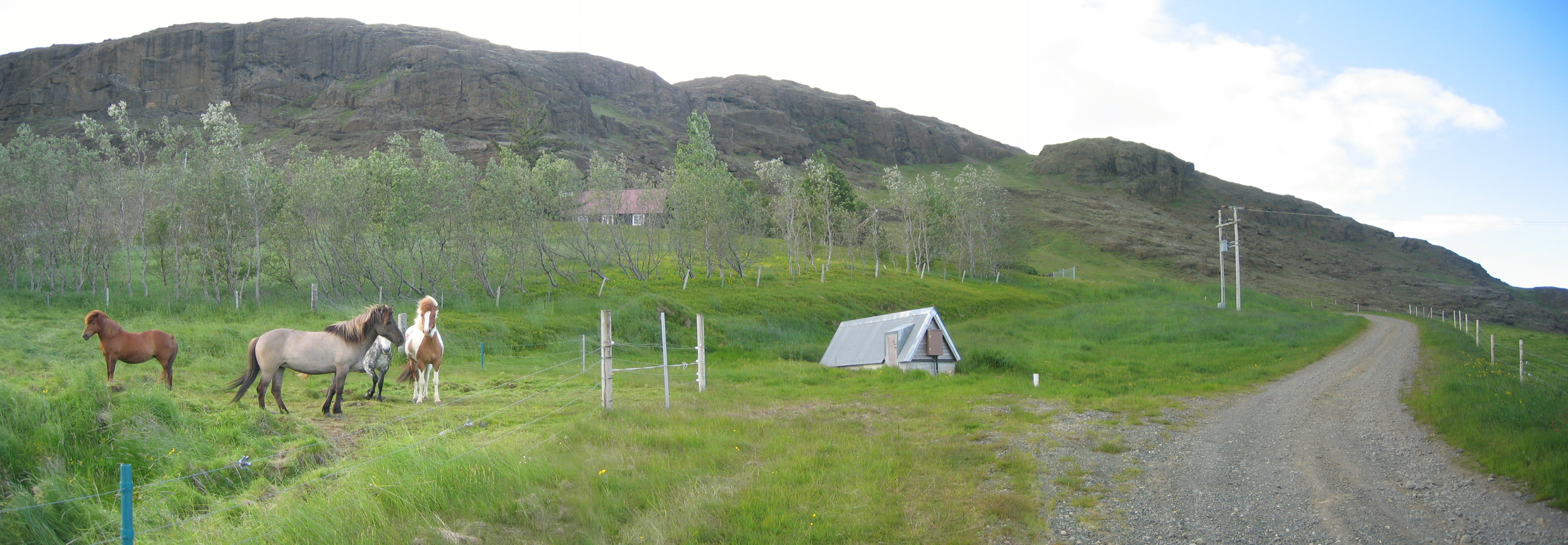 The road to the church in Mosfell in Grimsnes in Iceland. Photo by Salvor